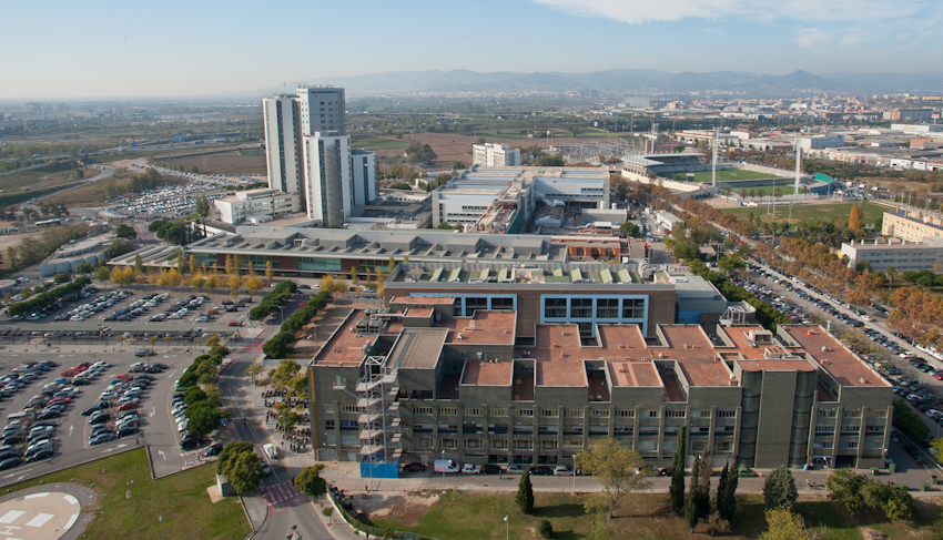 Campus of Bellvitge